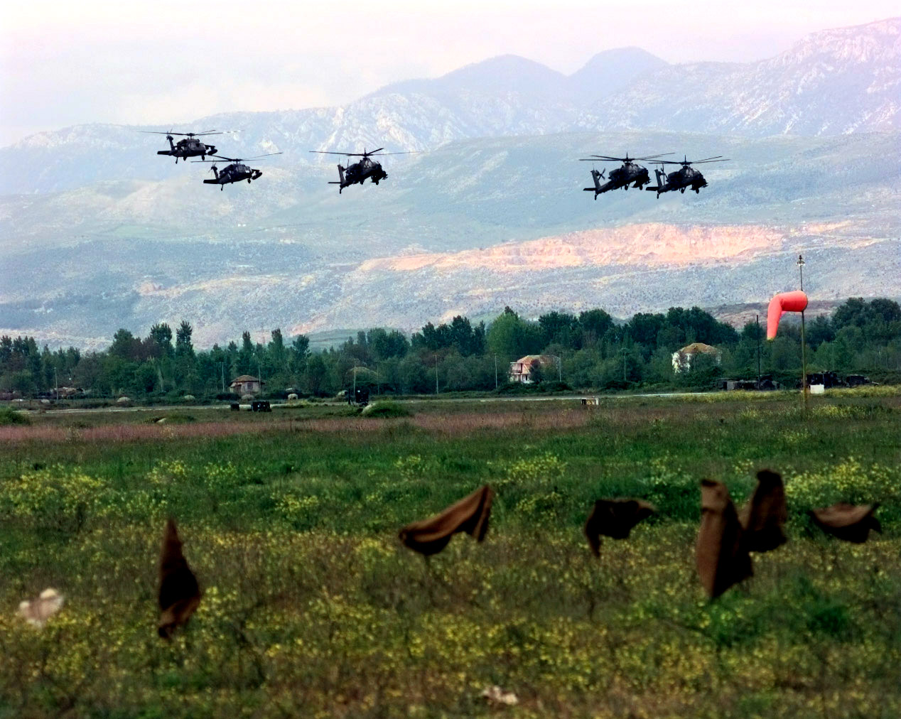 A second wave of U.S. Army UH-60 Blackhawk and AH-64A Apache attack helicopters from Task Force Hawk comes in for a landing at Rinas Airport in TiranÃ«, Albania, on April 25, 1999. The Task Force Hawk helicopters are deploying to TiranÃ« in support of NATO Operation Allied Force. Operation Allied Force is the air operation against targets in the Federal Republic of Yugoslavia.